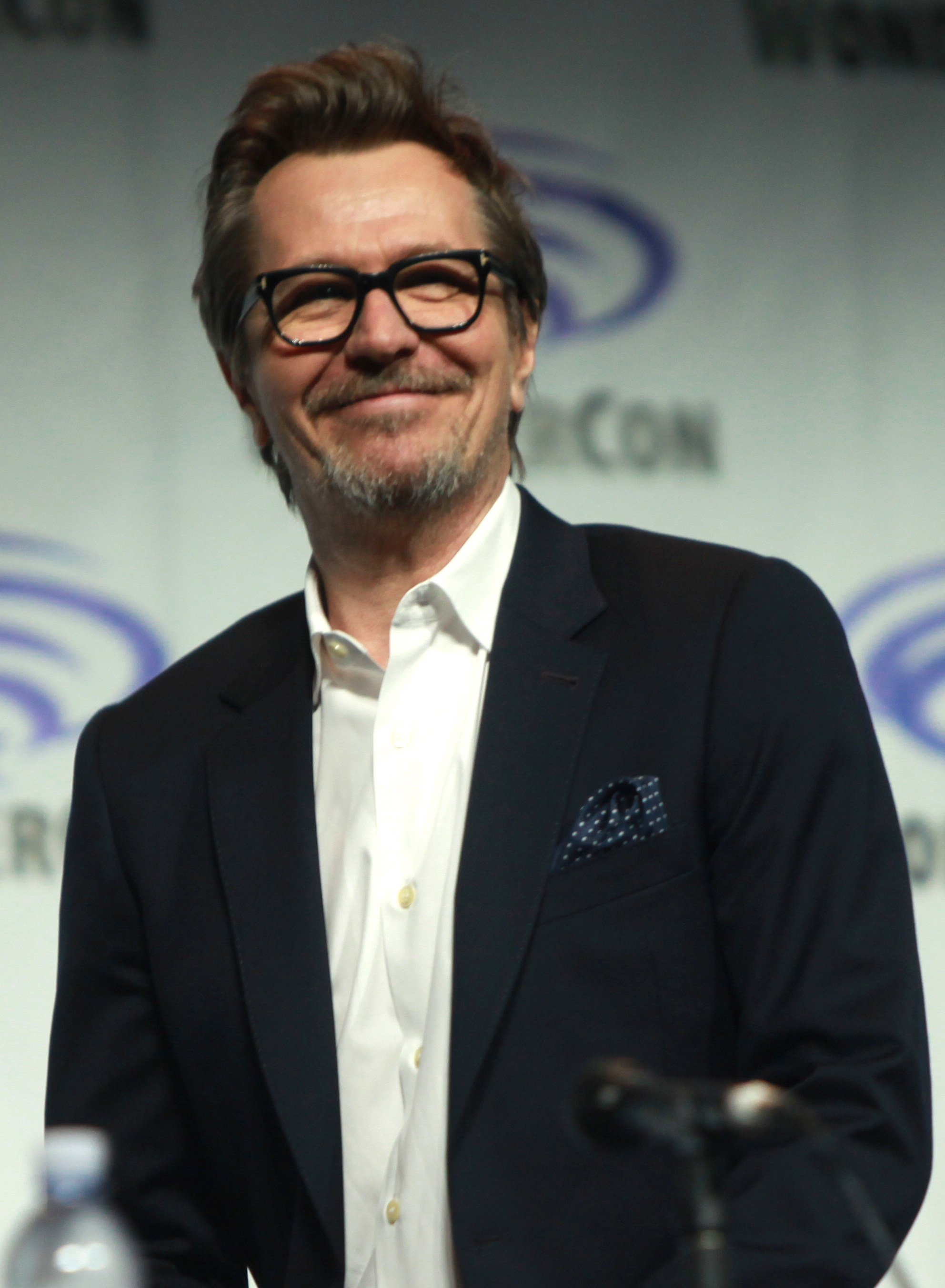 Gary Oldman at the 2014 WonderCon in Anaheim, California.